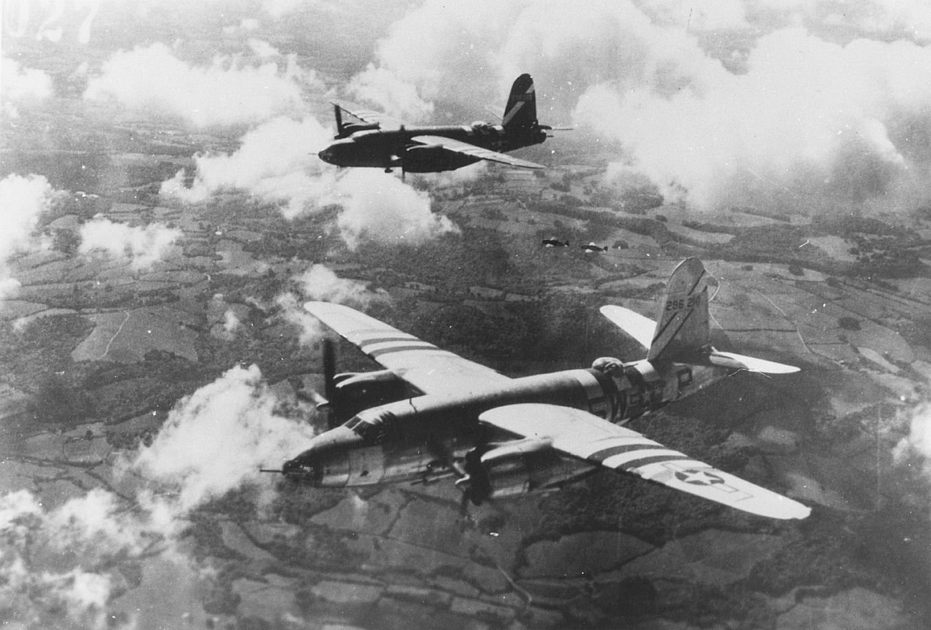 Two B-26 Marauders (5W-P, serial number 42-96210 in front) of the 587th Bomb Squadron, 394th Bomb Group fly in formation. Handwritten caption on reverse: '394BG, 587BS.'